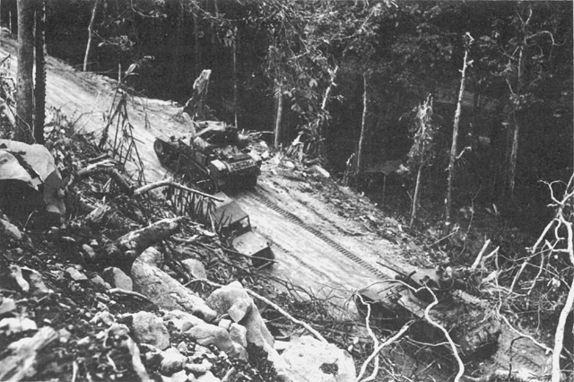 Light tanks from the 754th Tank Battalion during the March 1944 Japanese counterattack against the US lodgement around Torokina